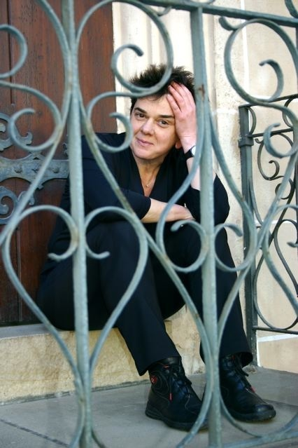 Angelika Overath